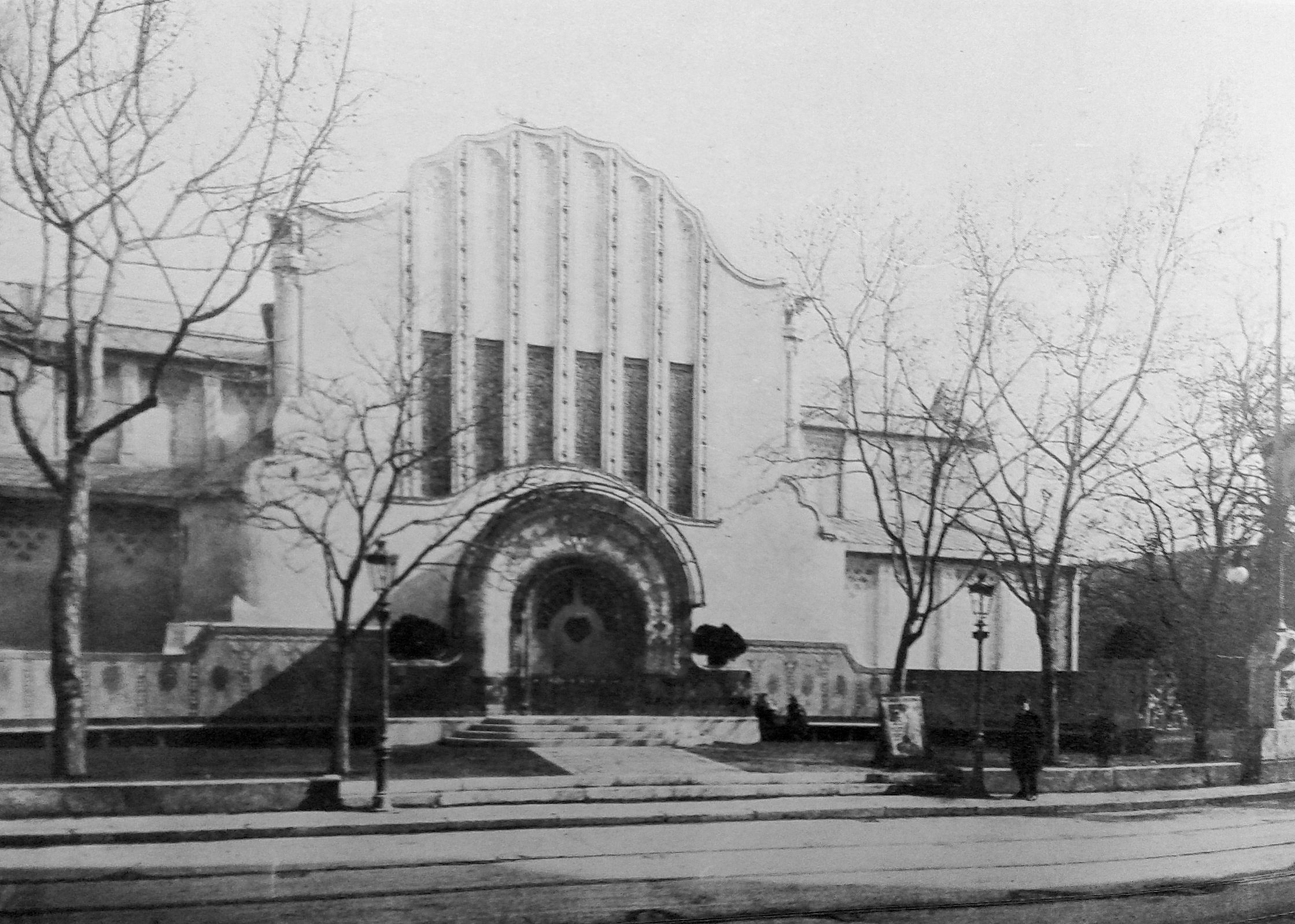 National Salon, Erzsébet square, Budapest. Architects: László and József Vágó. Originally published in A Ház magazine, 1908.